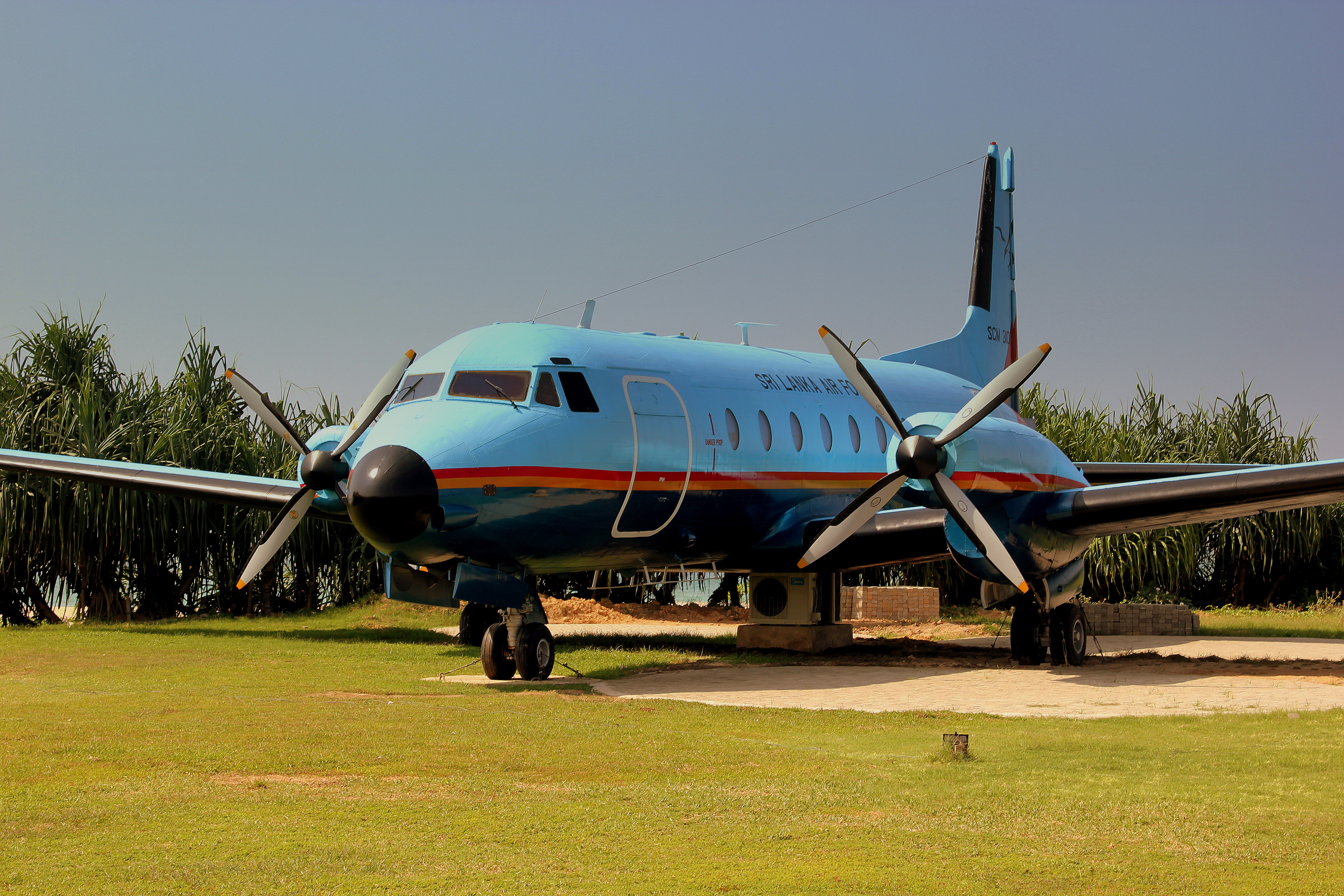 SLAF HAWKER HS748 at the Catalina Grill near Koggala Airfield, January 2013